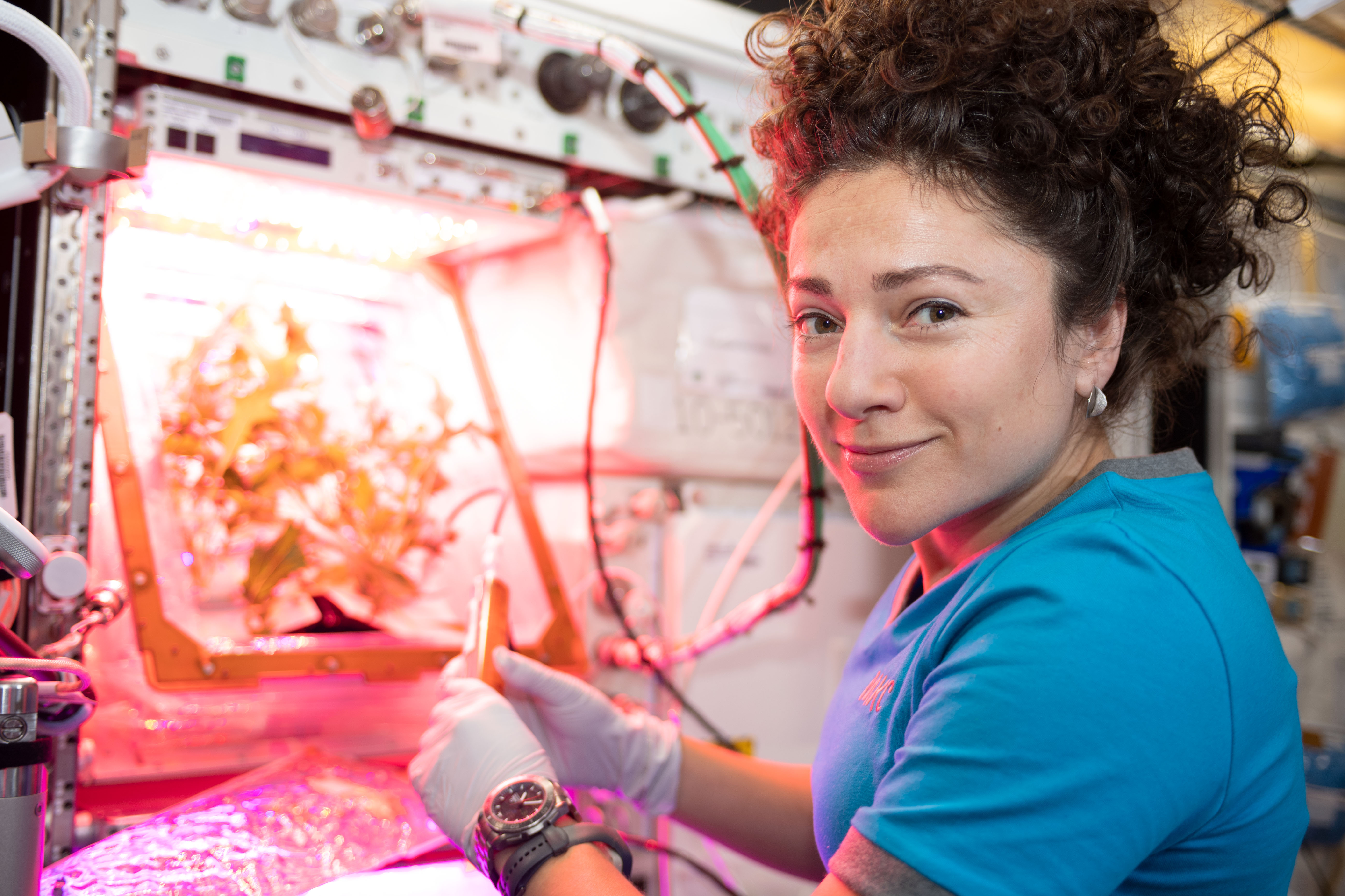 NASA astronaut Jessica Meir waters plant pillows where Mizuna mustard greens are raised as part of the Veg-04B experiment. This investigation is part of a phased research project to address the need for a continuous fresh food production system in space and focuses on the effects of light quality and fertilizer on a leafy crop. Taste is assessed by the crew.